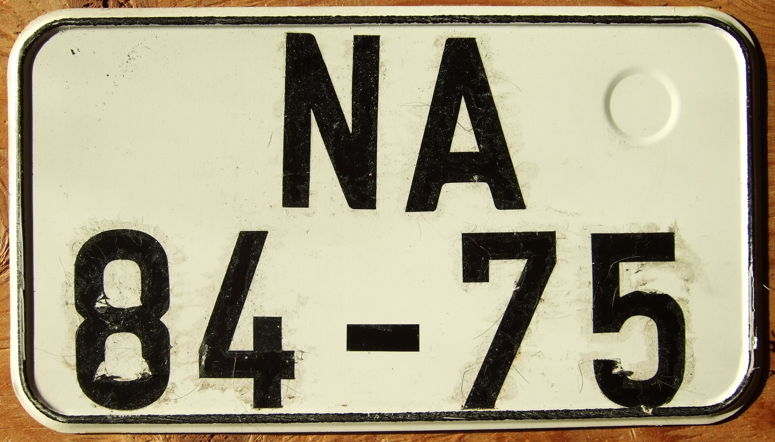 East Germany two-line plate from the 1960's with the earlier two digit town code.